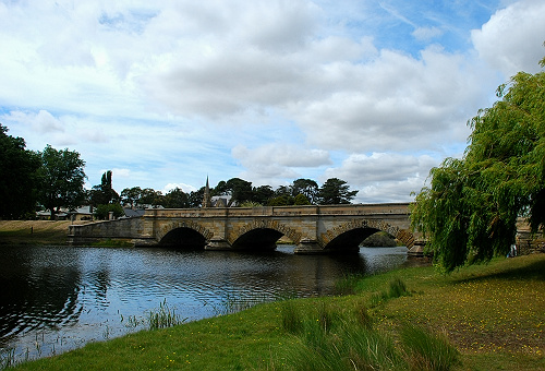 ross bridge